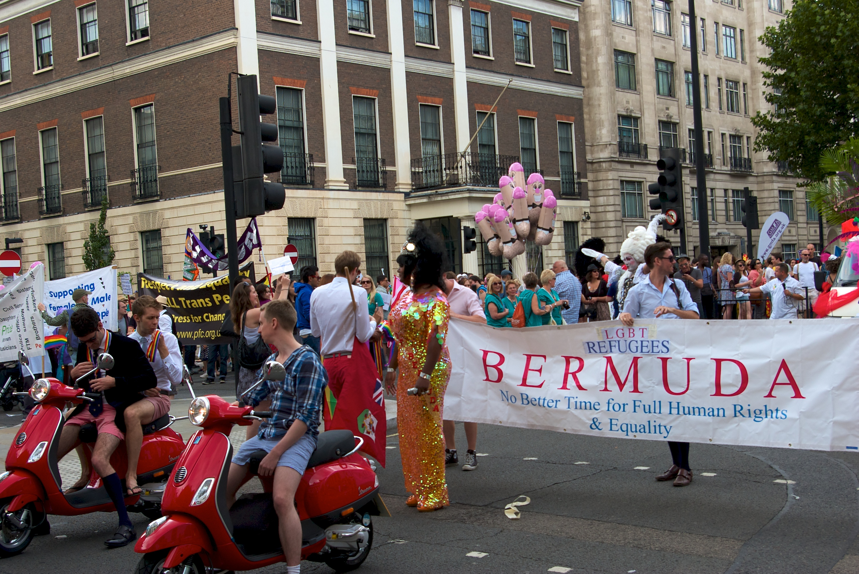 Marching against homophobia in Bermuda at Pride London 2011, near Portland Place.